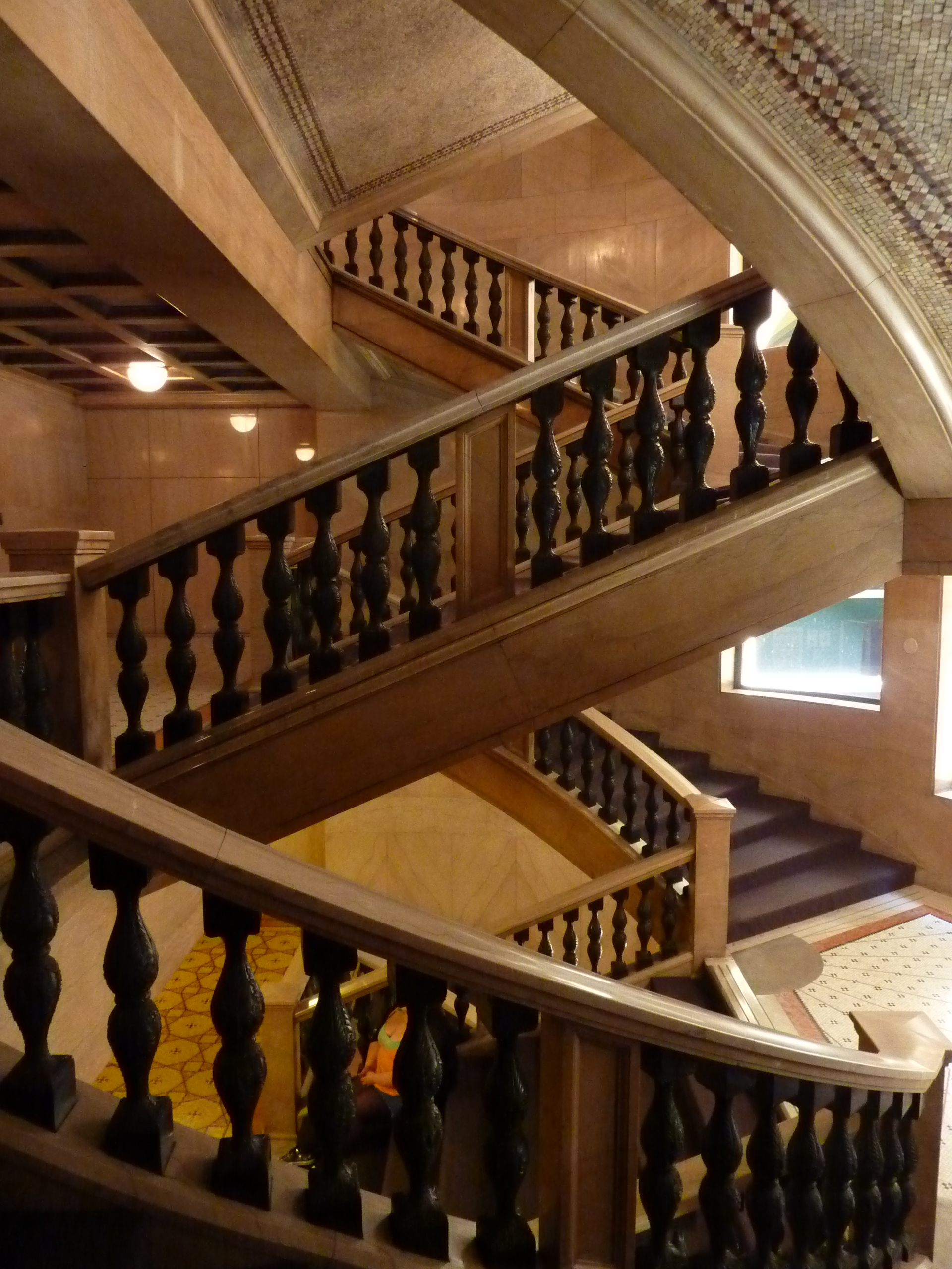 Stairs in the North side of the Chicago Cultural Center stairs on north side of building, formerly DAR Hall.